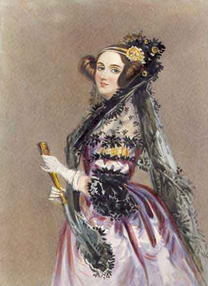 Depicted person: Ada King, Countess of Lovelace